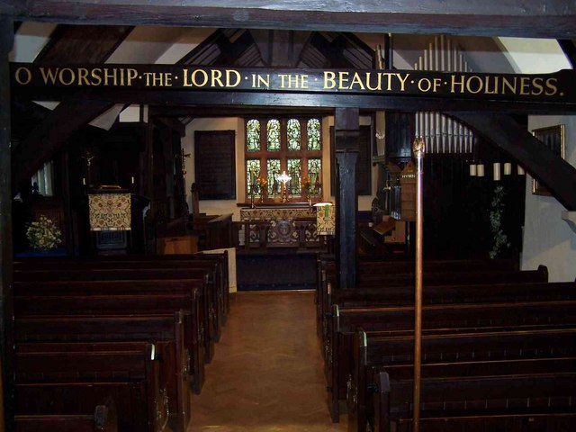 St. Lawrence, Rushton Spencer The beam with 'O Worship' leans at an alarming angle in this wonderful, old church. Church Details from village web site